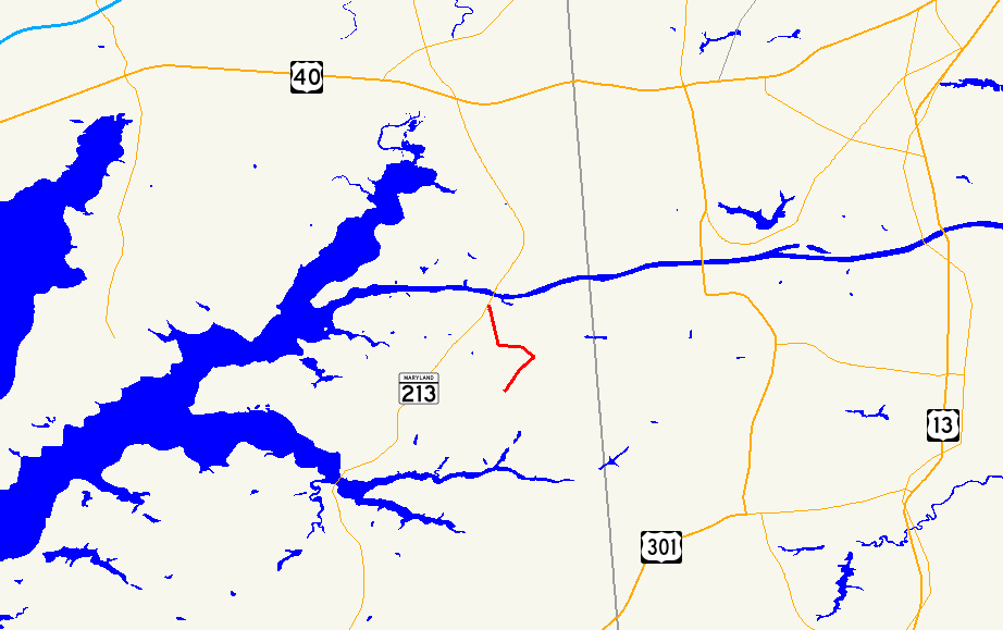 Map of Maryland Route 342